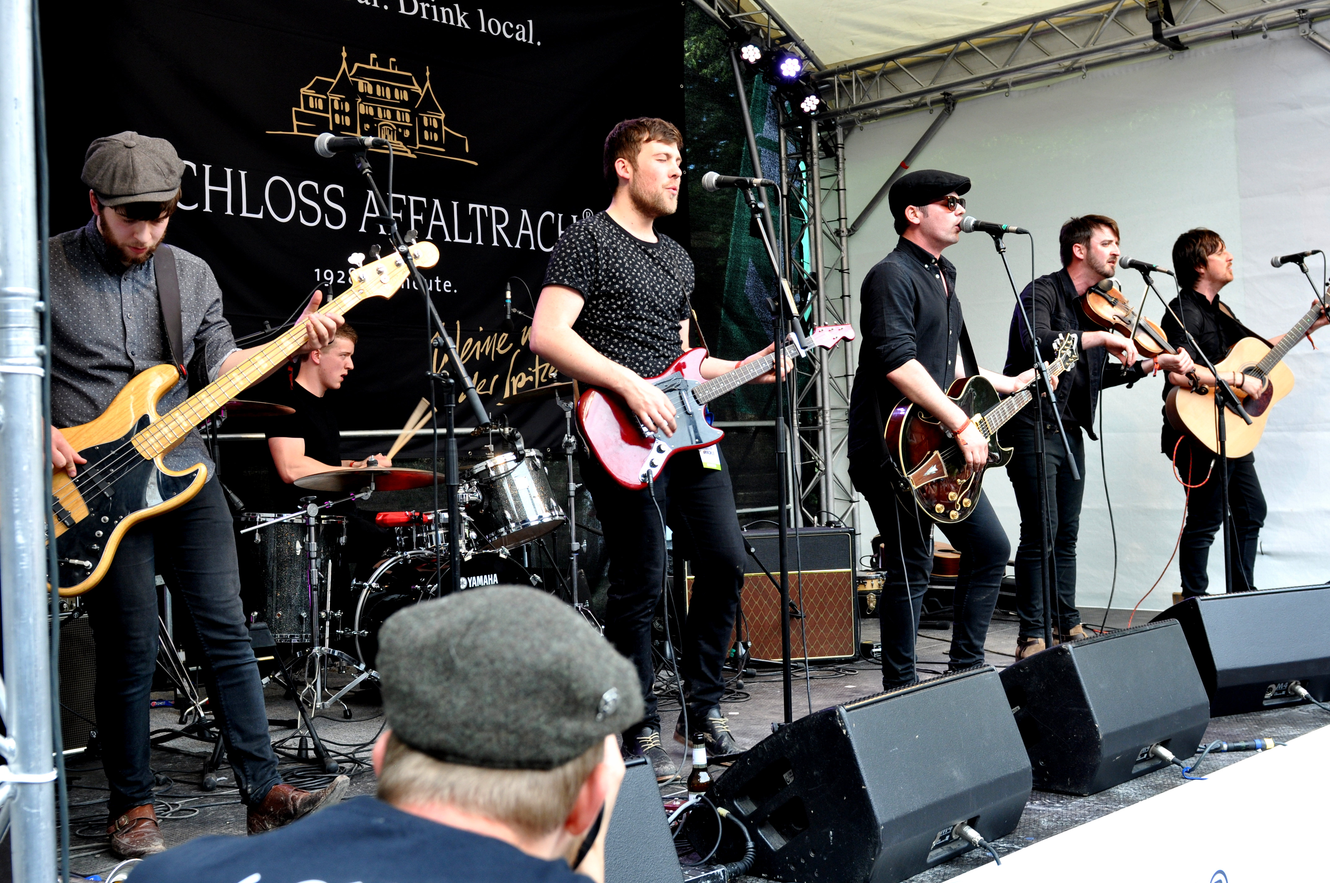 Rusty Shackle (GBR) appearance at the 2016 blacksheep festival at Bonfeld castle, Bad Rappenau, Baden-Wuerttemberg, Germany Festivalsommer This photo was created with the support of donations to Wikimedia Deutschland in the context of the CPB project "Festival Summer".